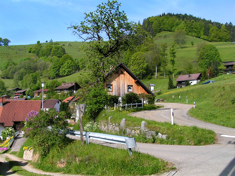 Holzinshaus, Black Forest, Baden-Württemberg, Germany.